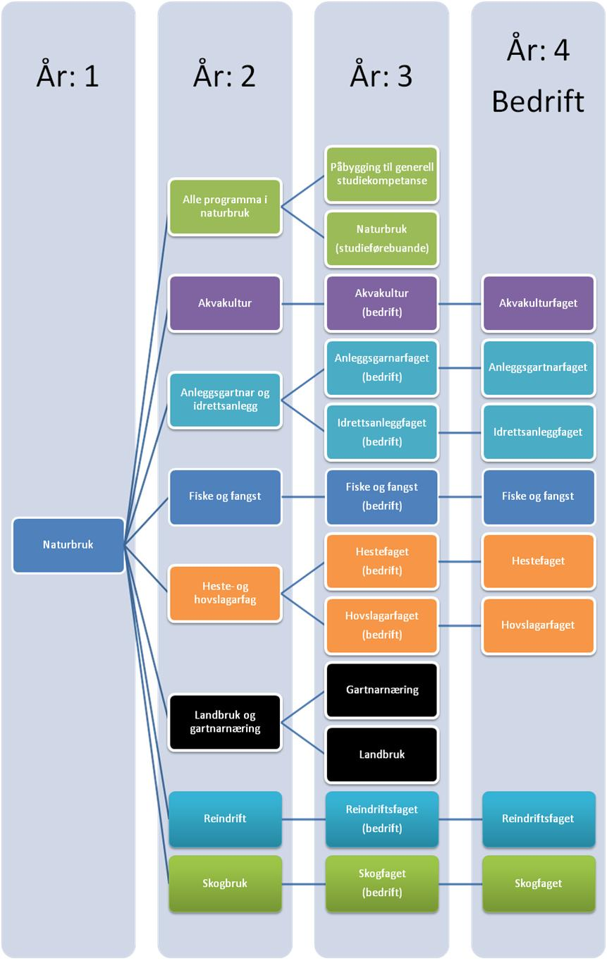 This are a list over studing lines in Naturbruk